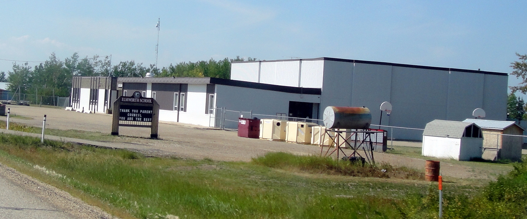 Elmorth School, Elmworth, Alberta, Canada